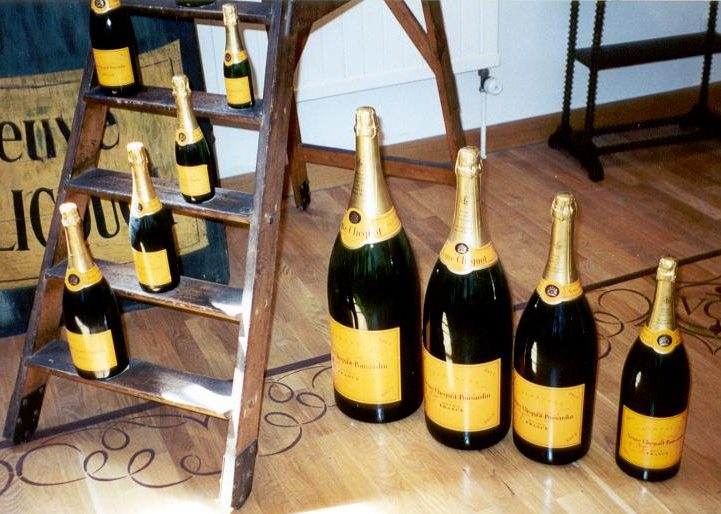 From English Wikipedia: Veuve Clicquot bottle size display. Taken on vacation in June 2001 at VC's cellars in Reims. Different sizes of bottles and its names; on ladder: quarter ("piccolo") = 0.188 liter (smallest) half = 0.375 liter full = 0.75 liter magnum = 1.5 liter on floor: Jeroboam = 3 liter Methuselah = 6 liter Salmanazar = 9 liter Balthazar = 12 liter (largest)